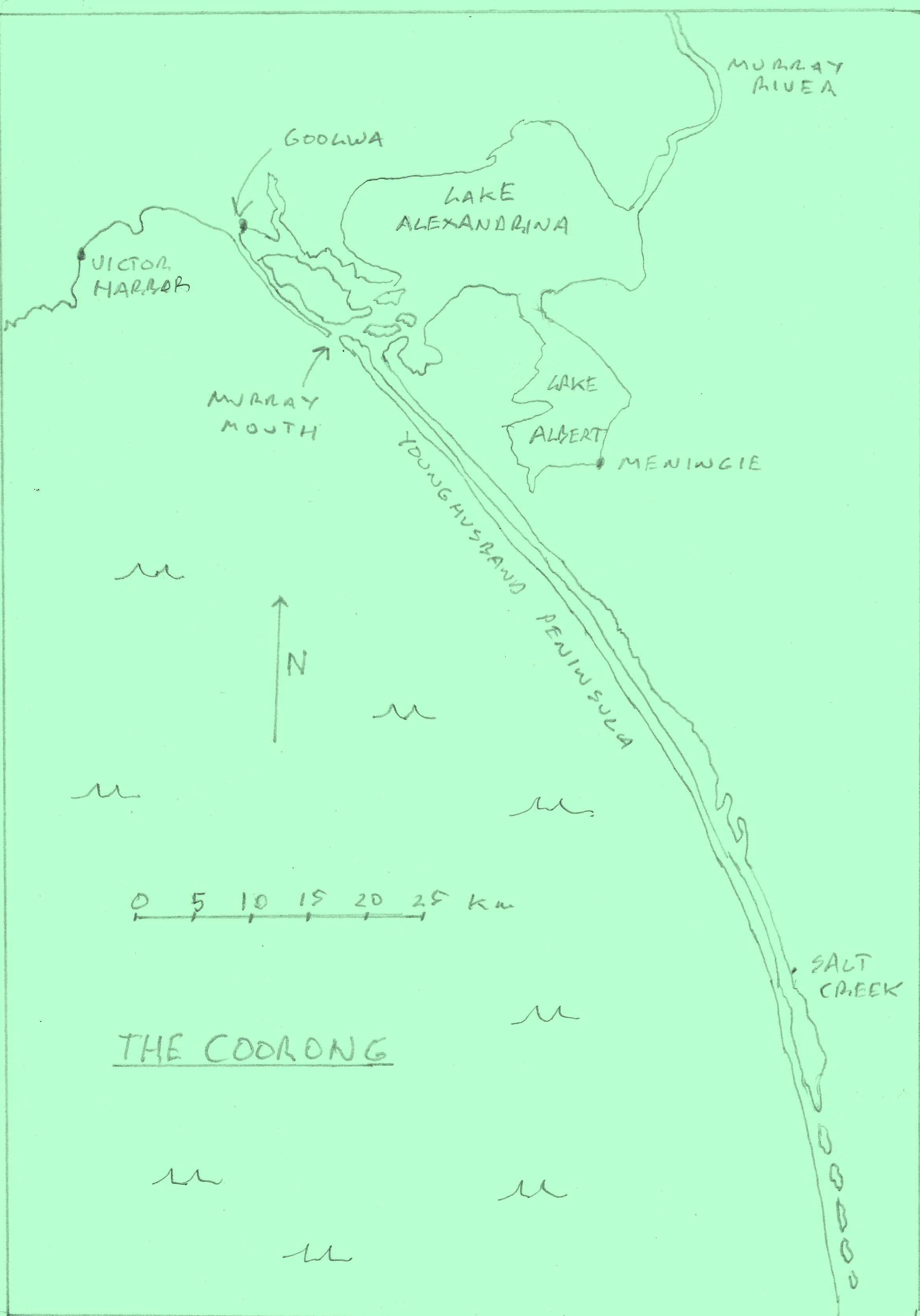 Map of the Coorong